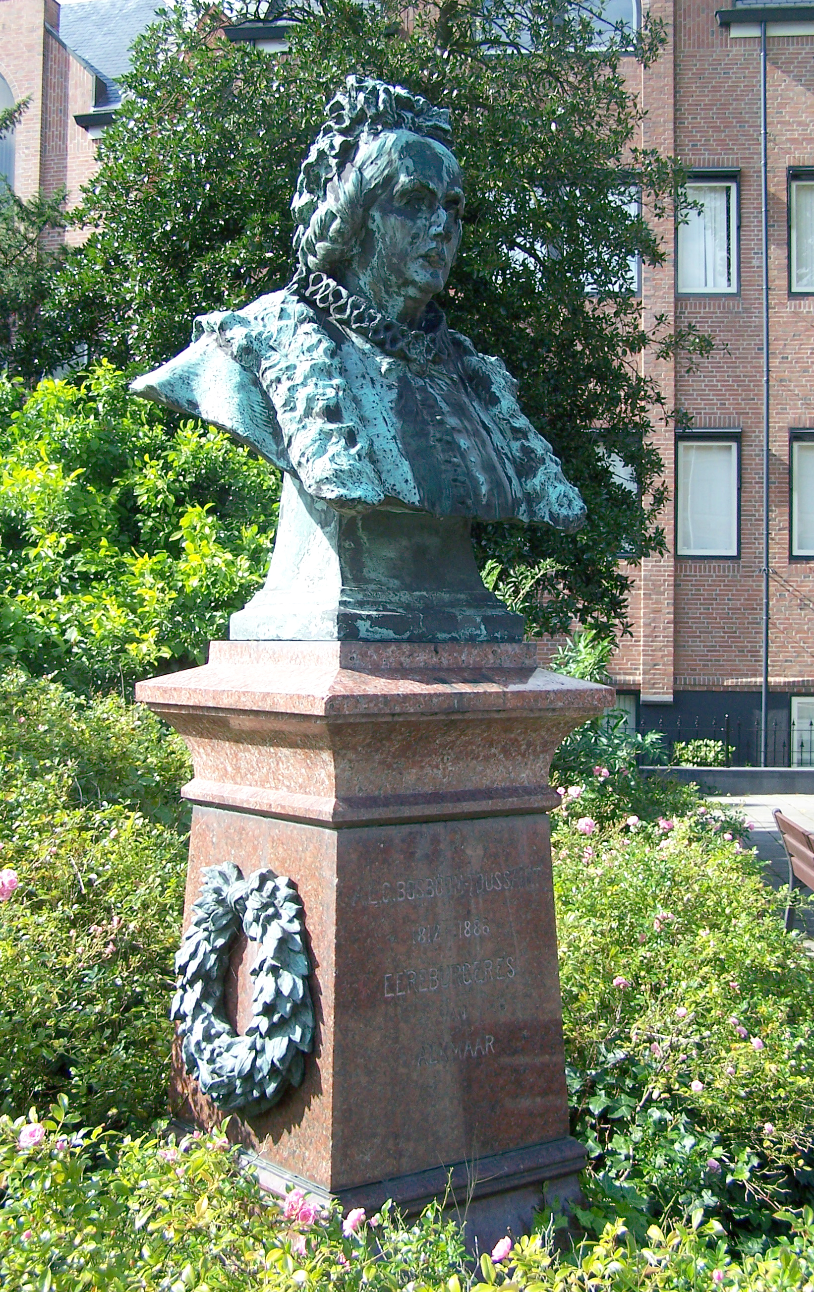 Bust of writer "A.L.G. Bosboom-Toussaint" made by August Falise in 1912. Placed at the corner of the Kennemerstraatweg/Wilhelminalaan in Alkmaar.